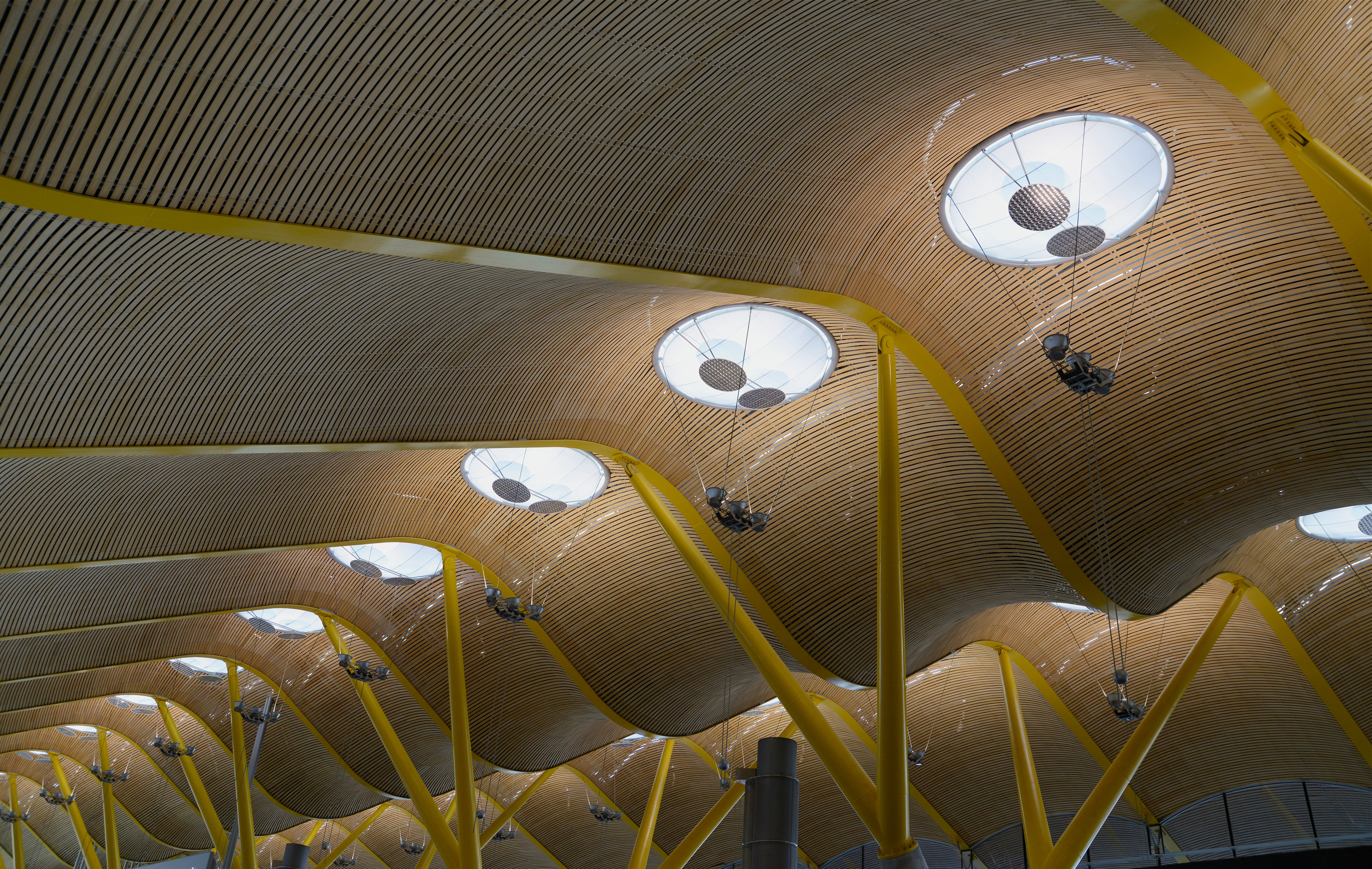 AIrport of Barajas, Terminal 4, Madrid